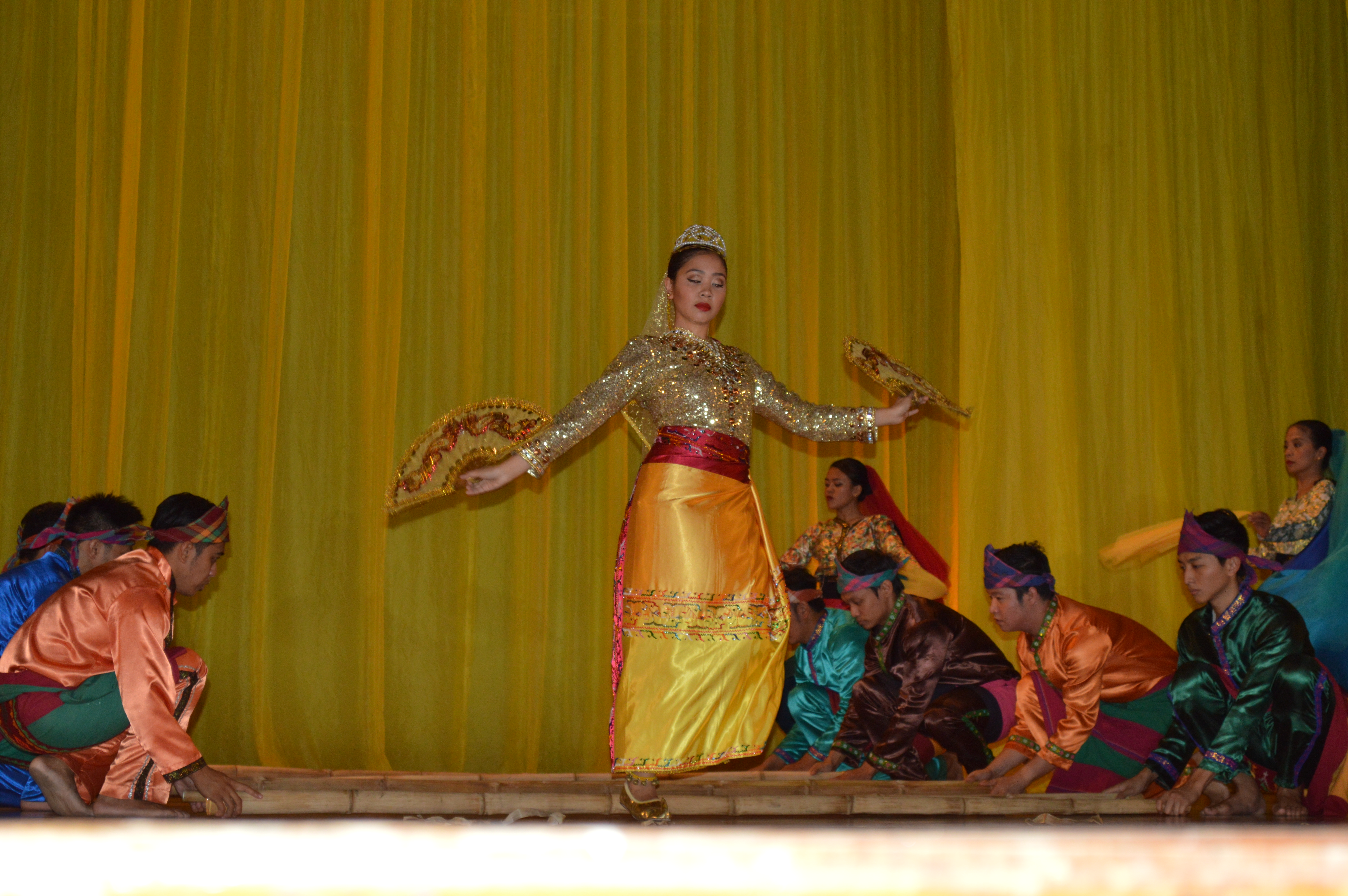 This is an image of music and dance from Egypt